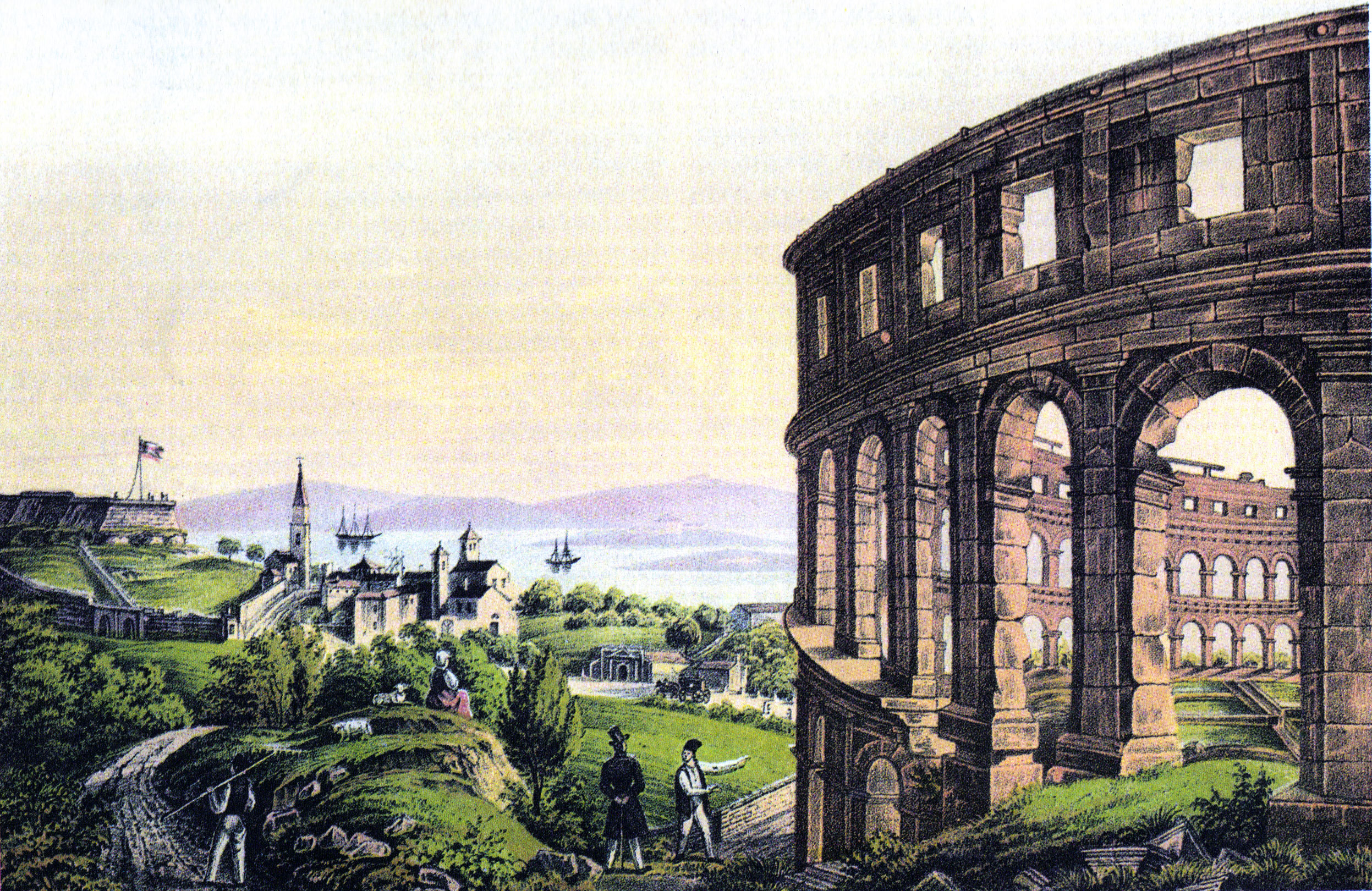 Pula around 1840.